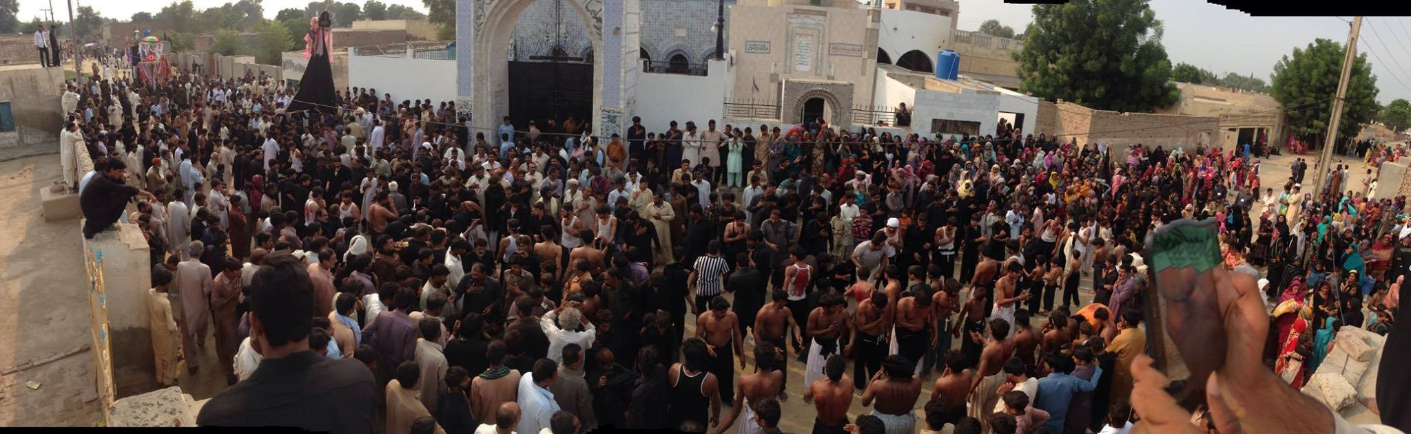 ابتدائے جلوس 10 محرم الحرام